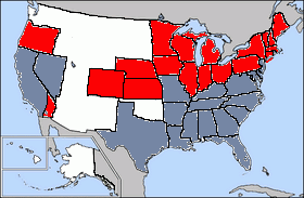 Elections in USA 1880 results by state - corrected map